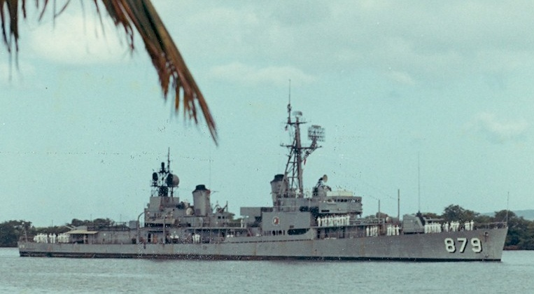 The U.S. Navy destroyer USS Leary (DD-879) entering port, circa in the early 1970s. The location may be Pearl Harbor.